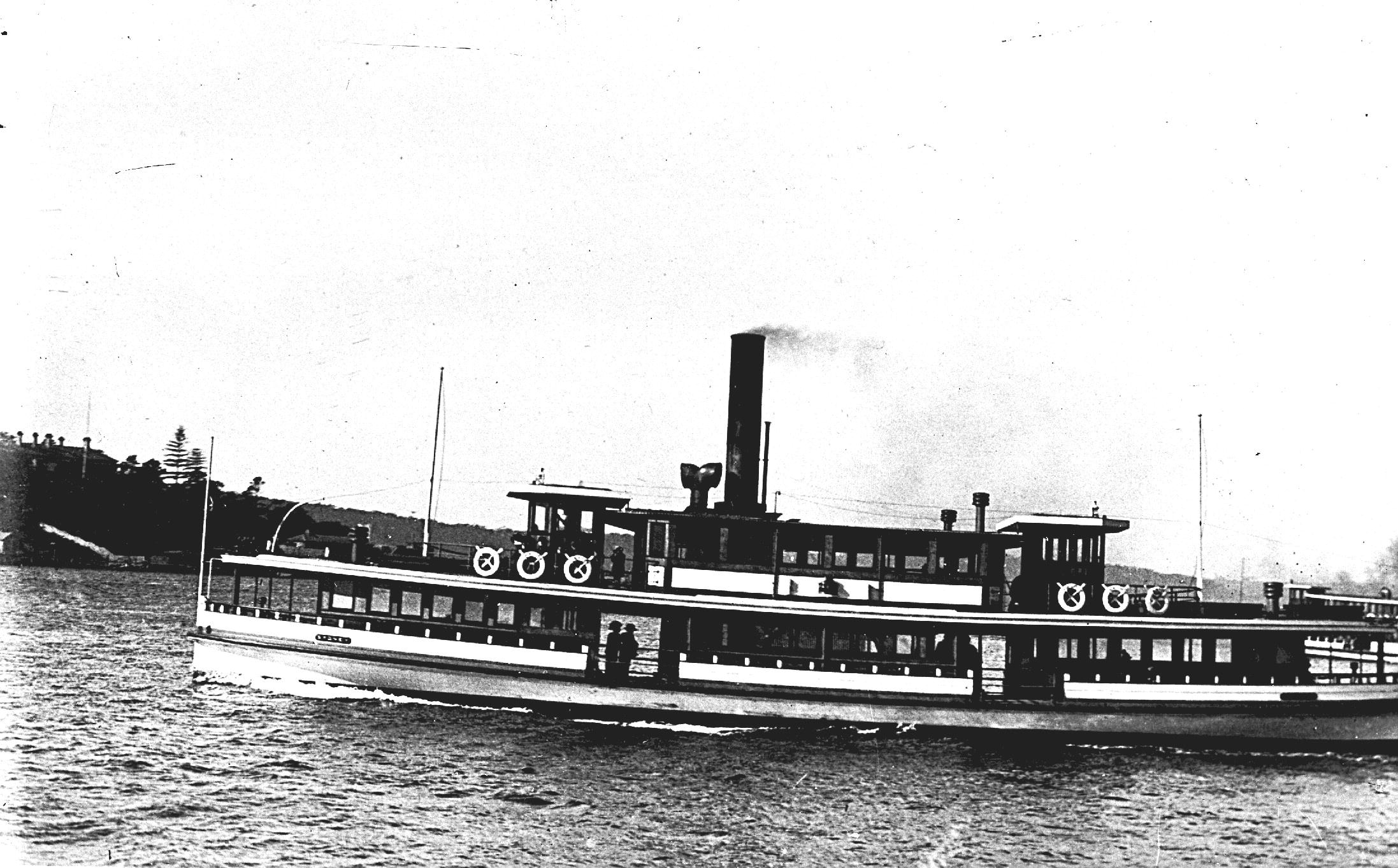 Ferry LADY DENMAN (1914- ) File 078/078672 DESCRIPTION LADY DENMAN is shown in her original appearance as a steam ship. DATE 1920s RECORDSERIES Sydney Reference Collection CITATION Graeme Andrews 'Working Harbour' Collection: 78672. Dufty collection. PROVENANCE City of Sydney Archives NOTES S105211